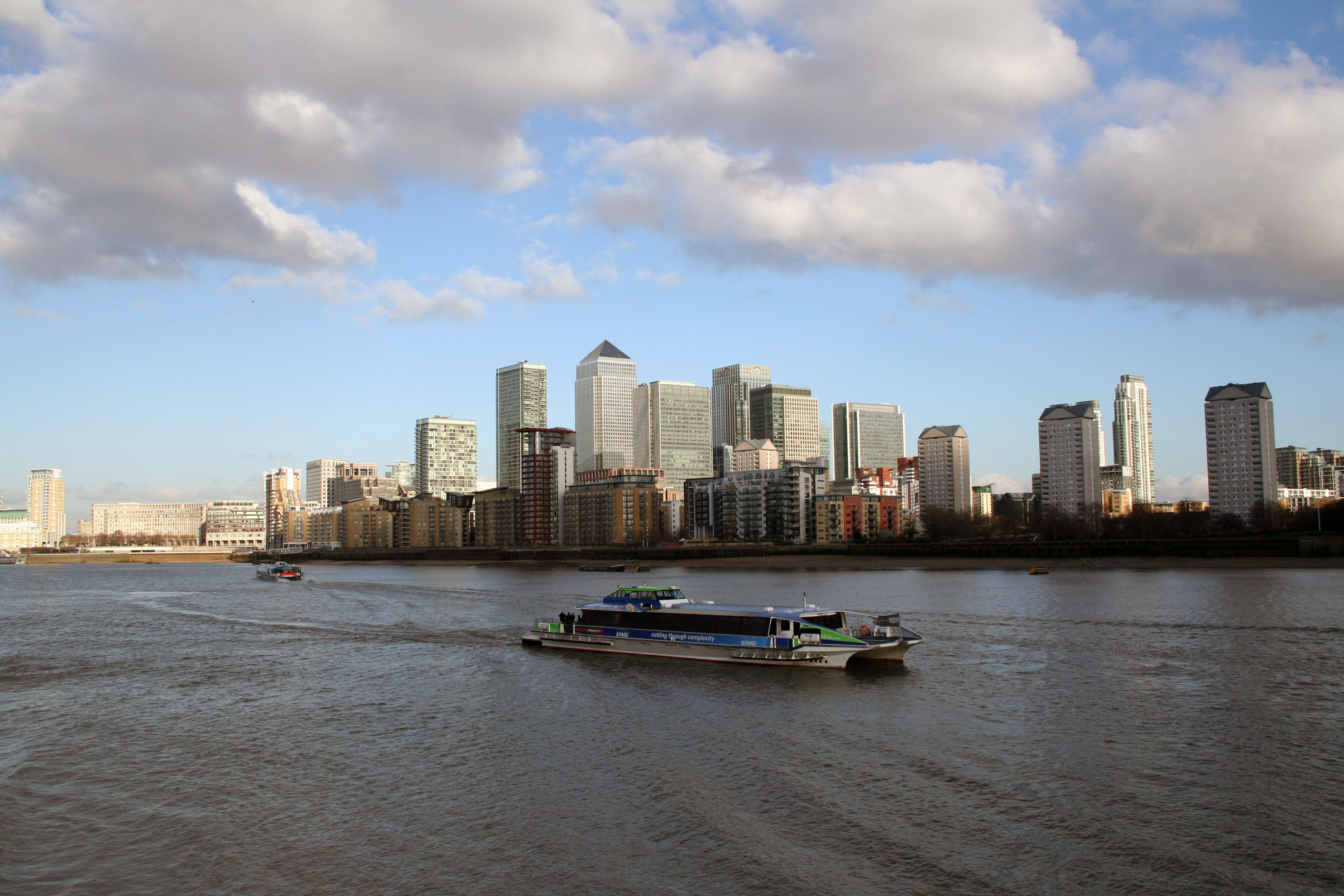 Hurricane Clipper at Greenland Pier, with Canary Wharf in the background